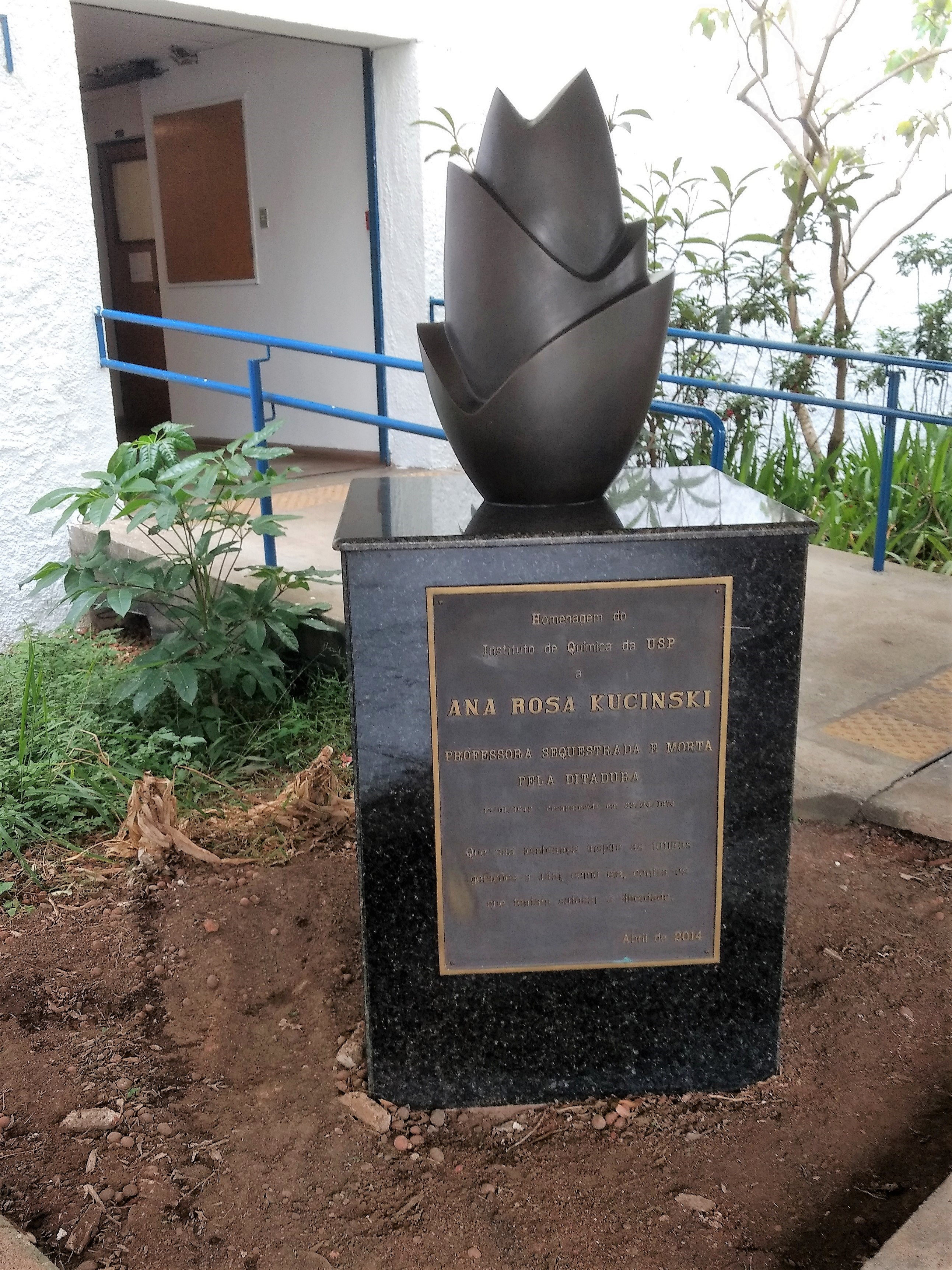 Photowalk during Wikidata Lab VI. Read more here.